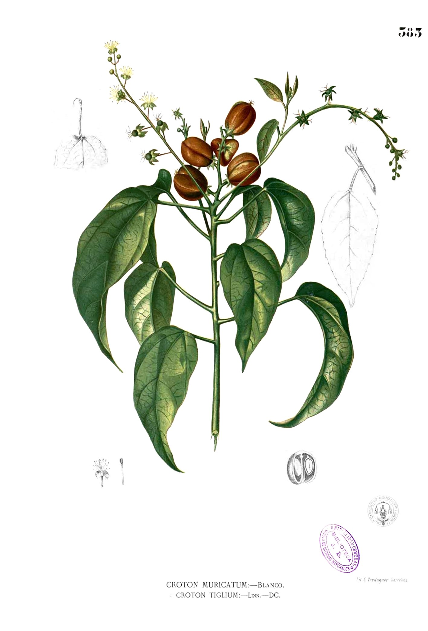 Croton tiglium Plate from book